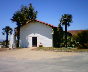 Mission Soledad, Monterey County, California. 2005.